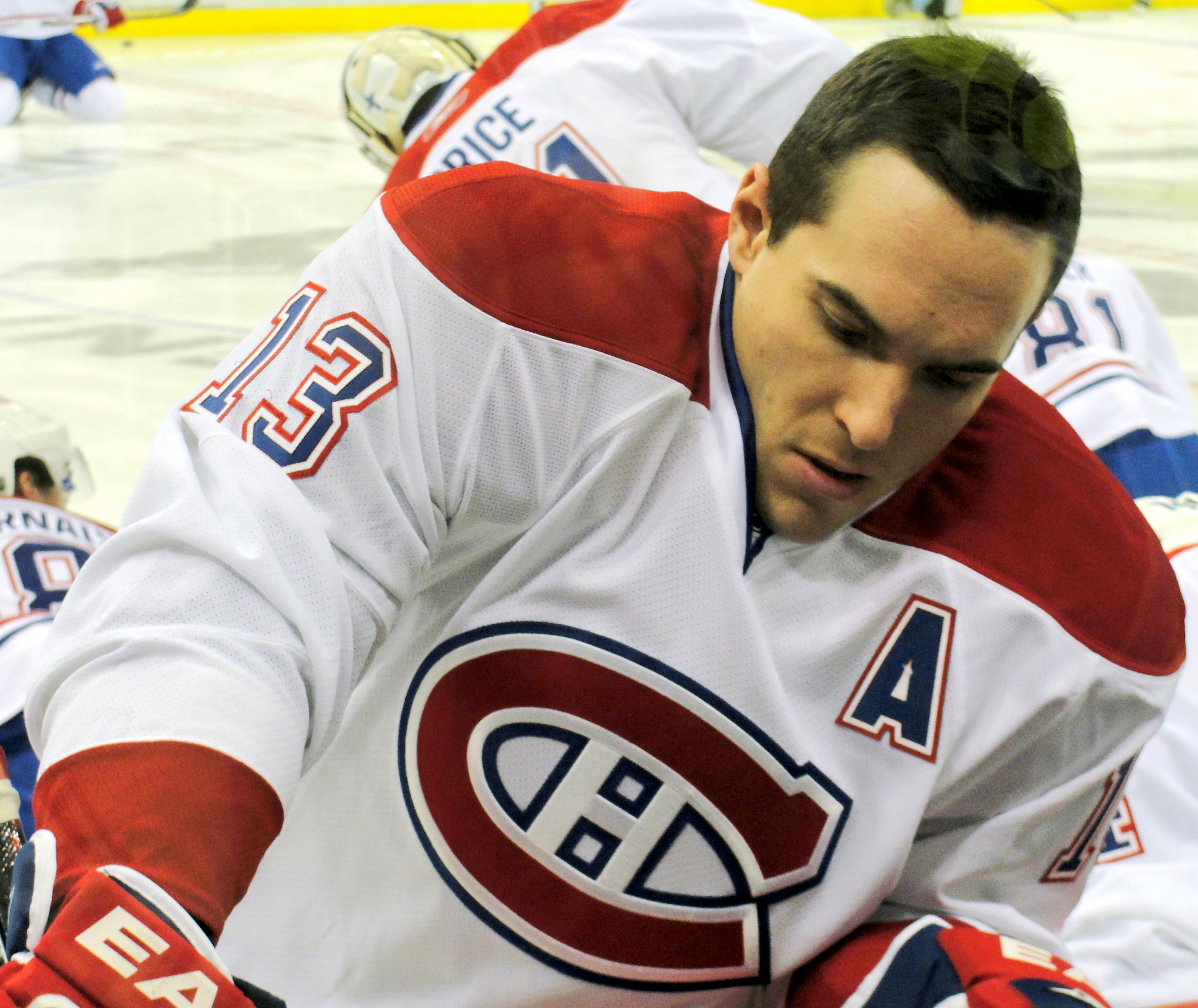 Montreal Canadiens forward Mike Cammalleri stops by the bench while warming up prior to a game agains the Pittsburgh Penguins, March 12, 2011 at Consol Energy Center in Pittsburgh, PA.